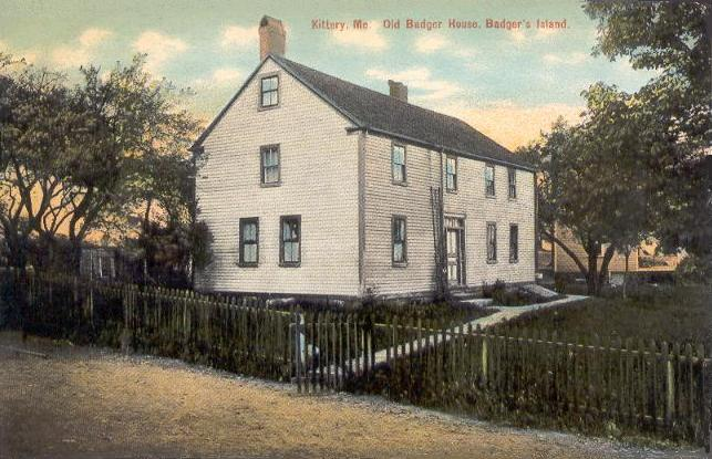 Old Badger House, Badger's Island, Kittery, Maine. This was the home of William Badger (1752-1830), master shipbuilder and namesake of Badger's Island.